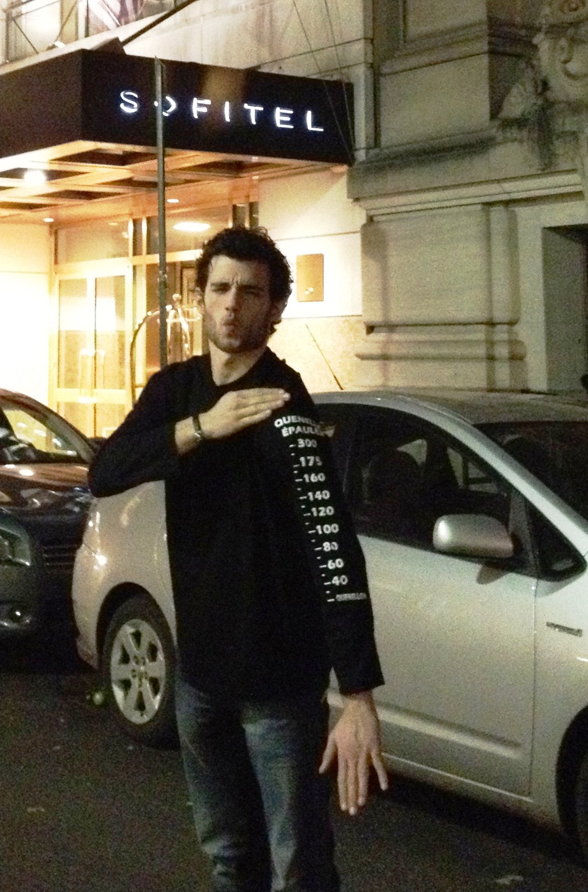 Quenelle gesture MC Ganti against Dominique Strauss-Kahn in front of the Sofitel New York.